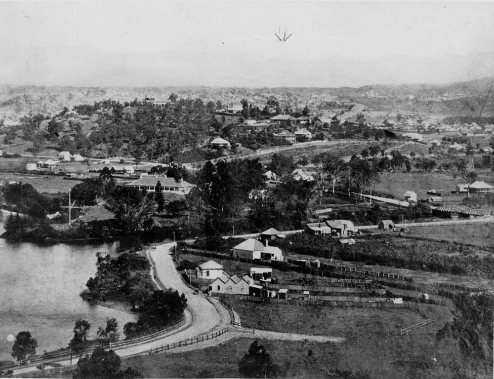 Panorama over Breakfast Creek towards Bowen Hills, Brisbane, ca. 1883 Photograph taken from Hamilton over Breakfast Creek and Newstead, including Newstead House, towards Bowen Hills. Jordan Terrace, Bowen Hills, is visible in the middle of the picture.